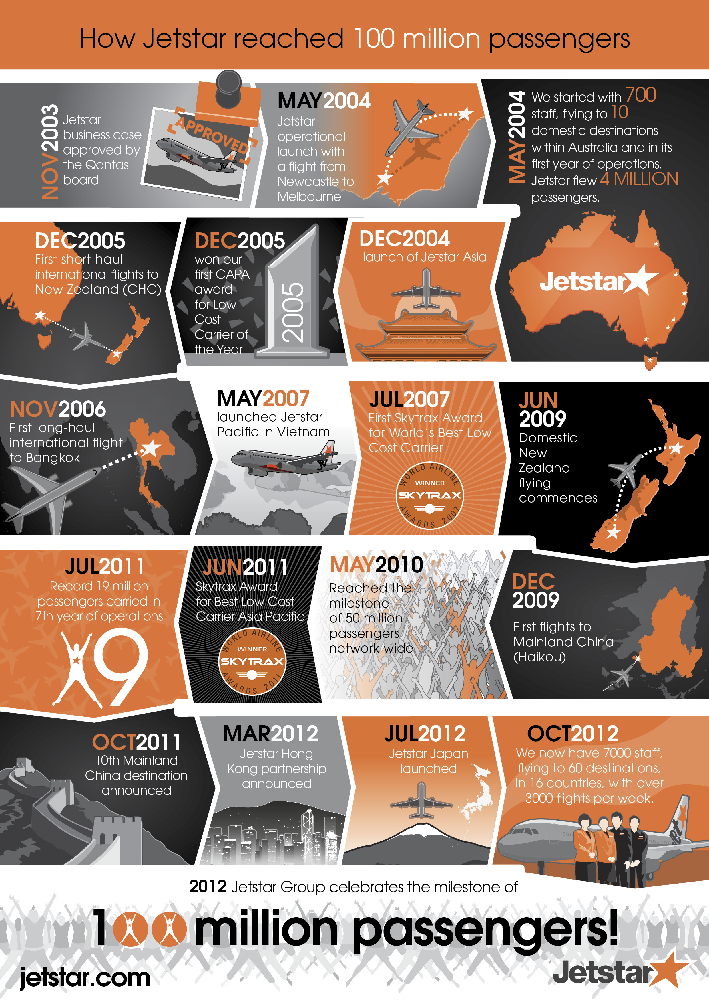 An information graphic detailing how Jetstar carried 100 million passengers in just over eight years.